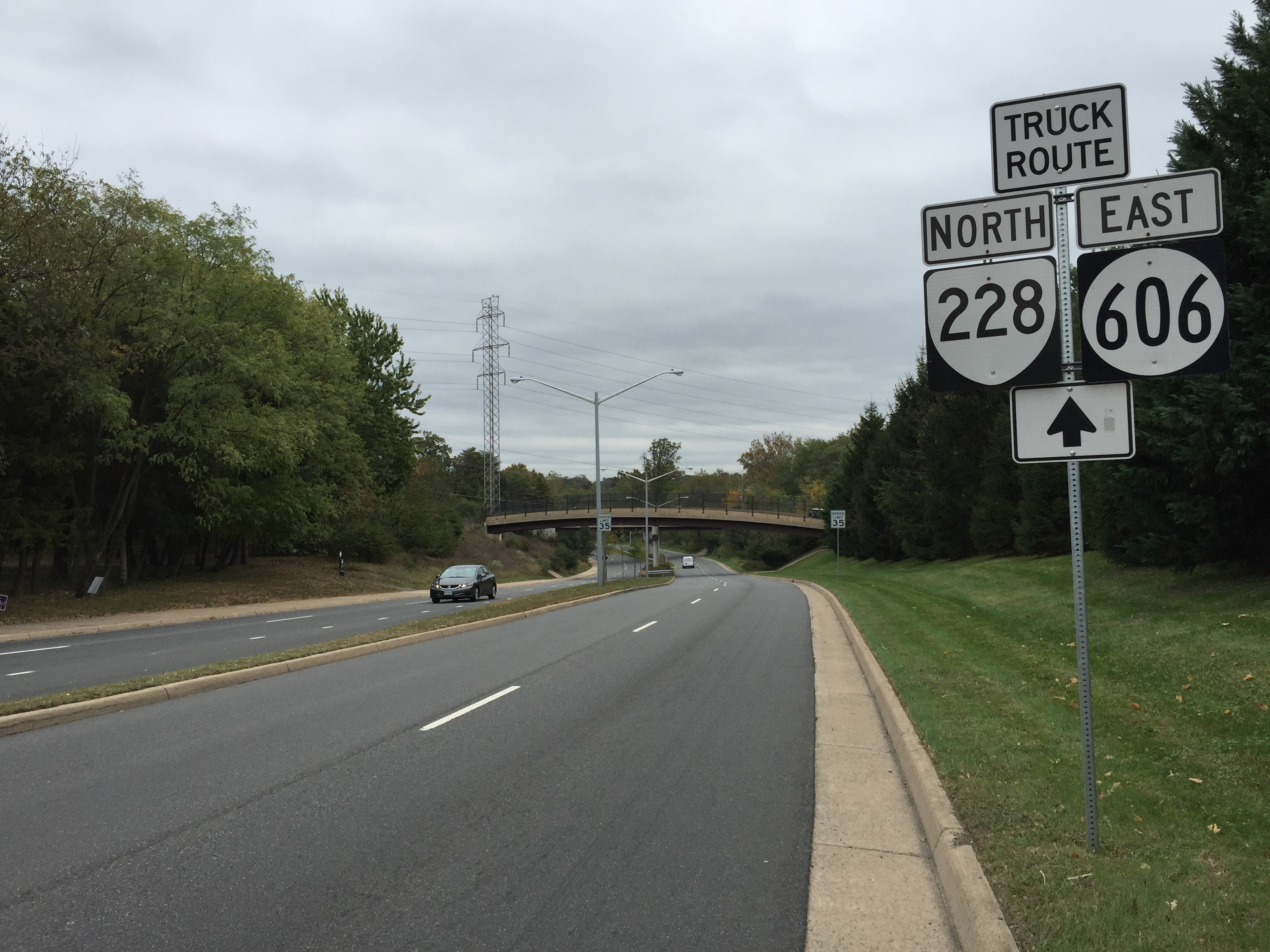 View north along Virginia State Route 228 Truck and east along Virginia State Secondary Route 606 Truck (Herndon Parkway) at Crestview Drive in Herndon, Fairfax County, Virginia